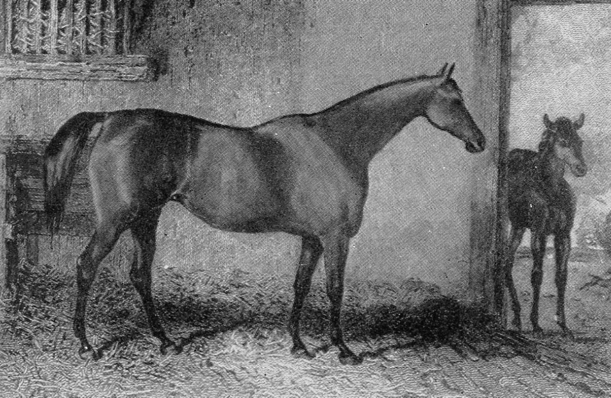 Cobweb (GB), b.m. 1821 and her foal. She was an undefeated winner of the 1,000 Guineas and Epsom Oaks.